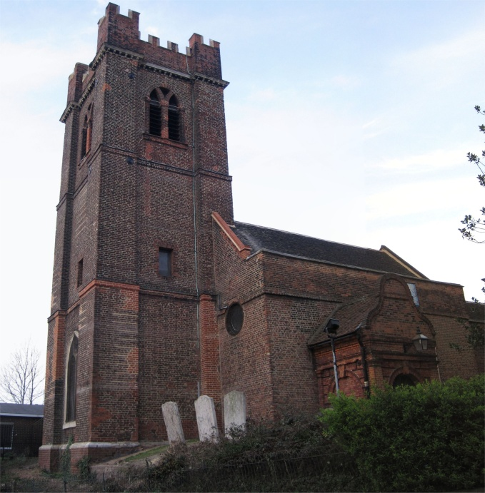 Church of St Luke